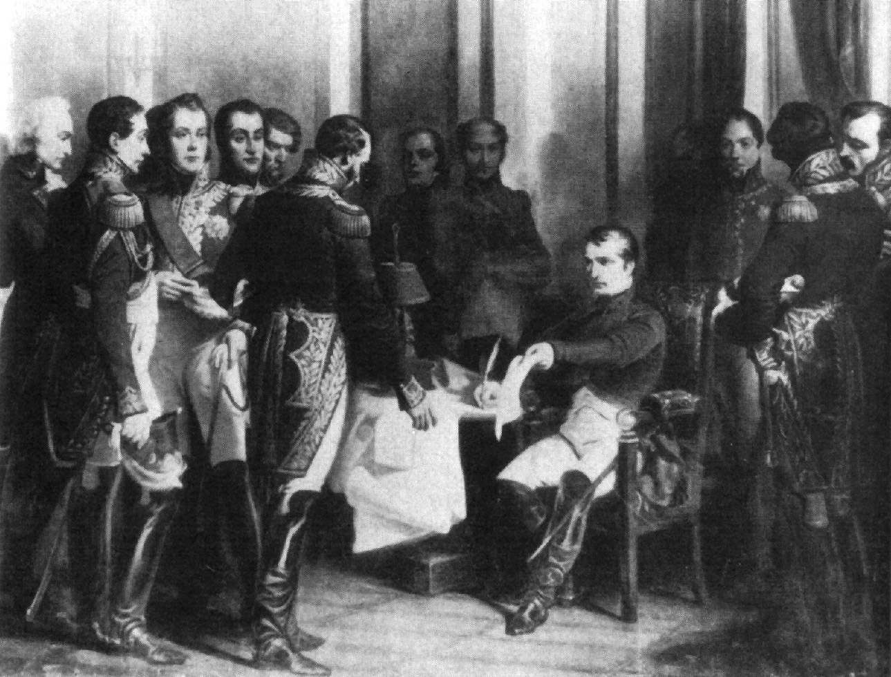 Napoléon Bonaparte's abdication